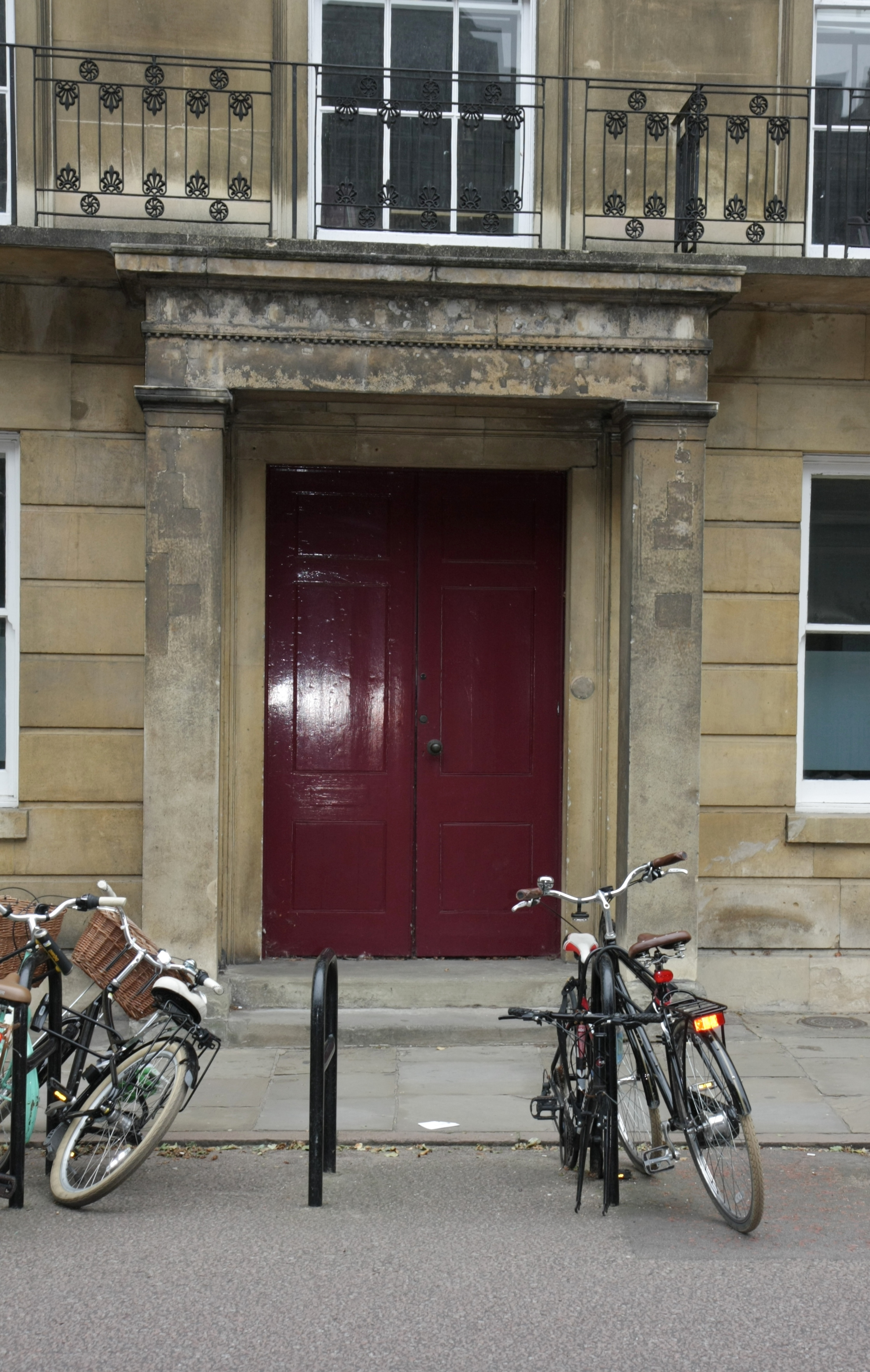 Entrance of Bull Hostel, 68 Trumpington Street, Cambridge, England. Part of St Catharine's College, Cambridge. Build in 1828 as the Bull Hotel. In the Second World War it was used a centre for US servicemen. At the end of the war it was used as an educational centre known as Bull College.